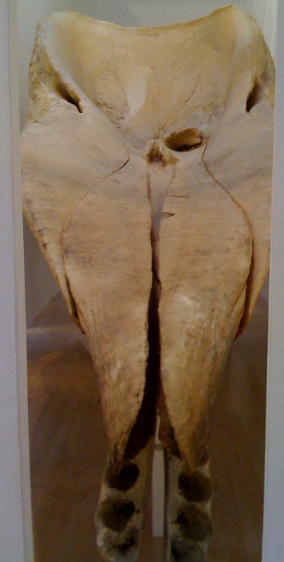 A view of the supracranial basin of a sperm whale skull. From Lucy Skaer's exhibition, Leviathan Edge.